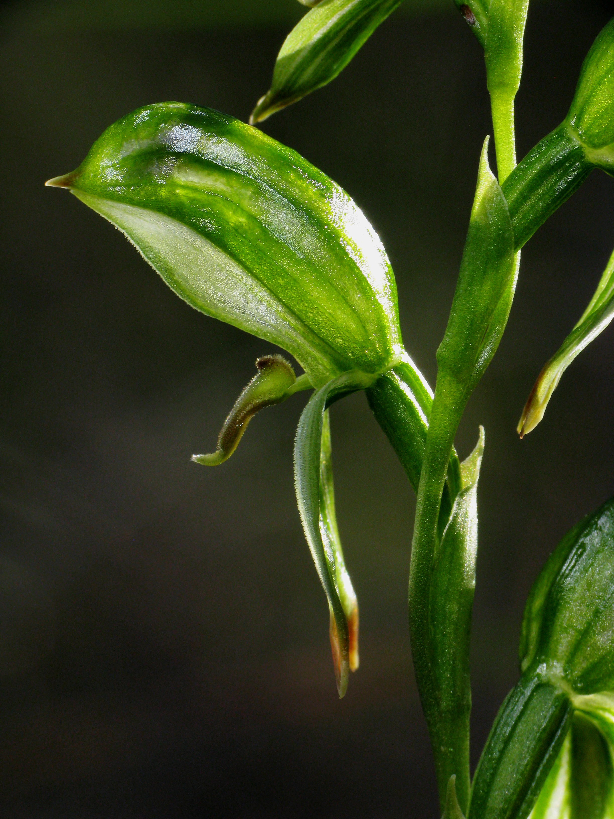 Pterostylis umbrina